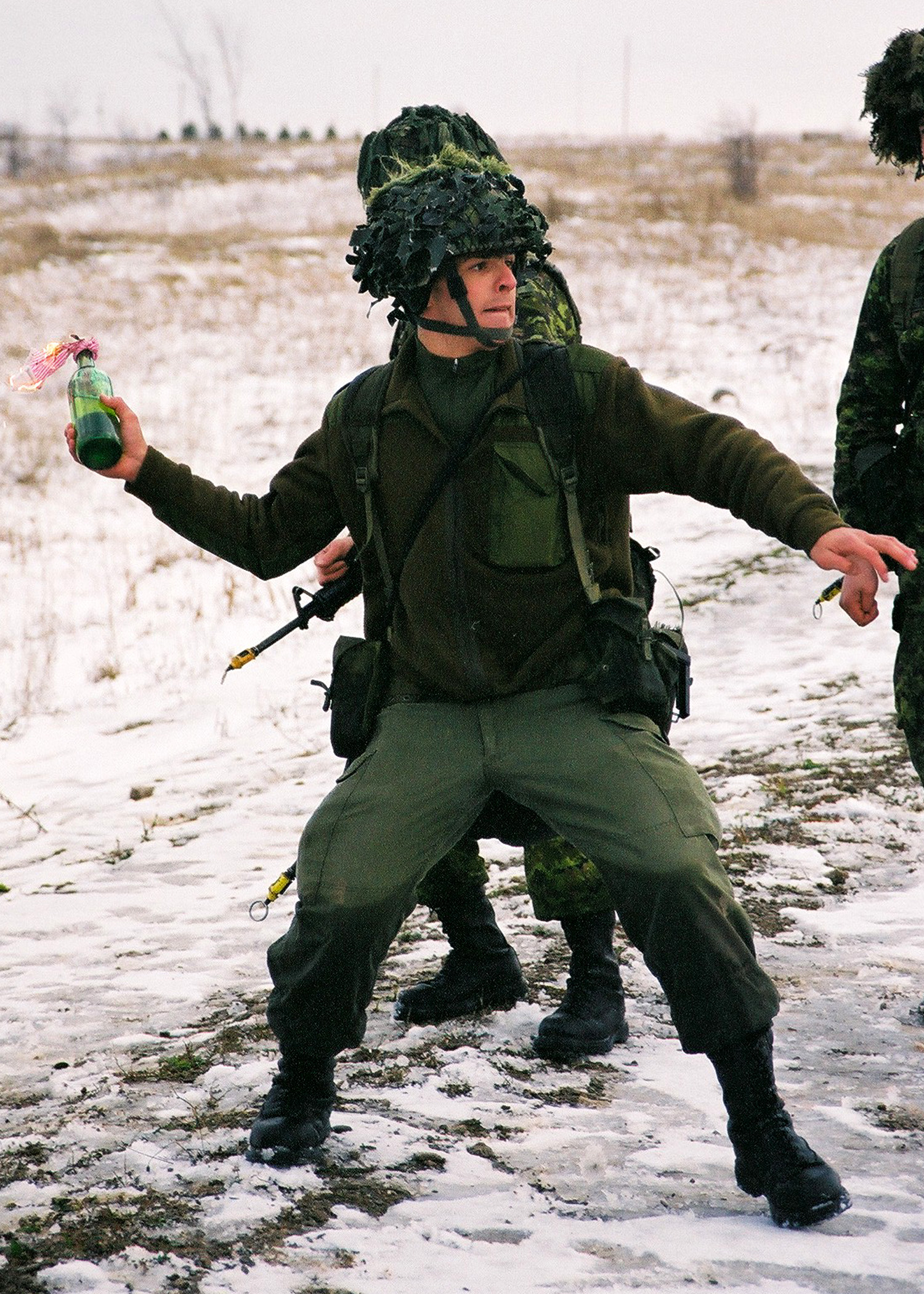 Canadian Forces soldier throwing Molotov cocktail